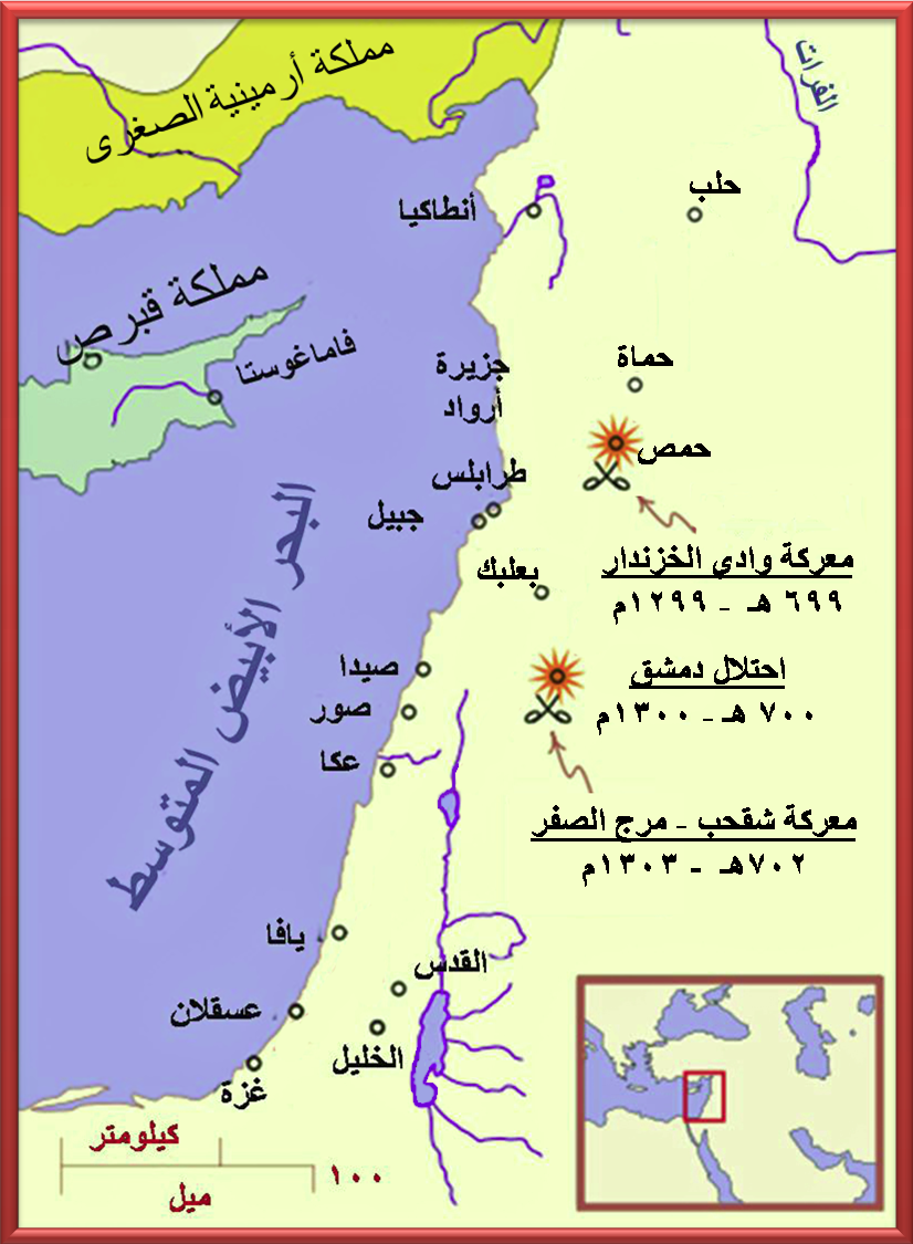 Map showing two battles in the Levant: a) Battle of Wadi al-Khazandar 1299 b) Battle of Marj al-Saffar 1303.